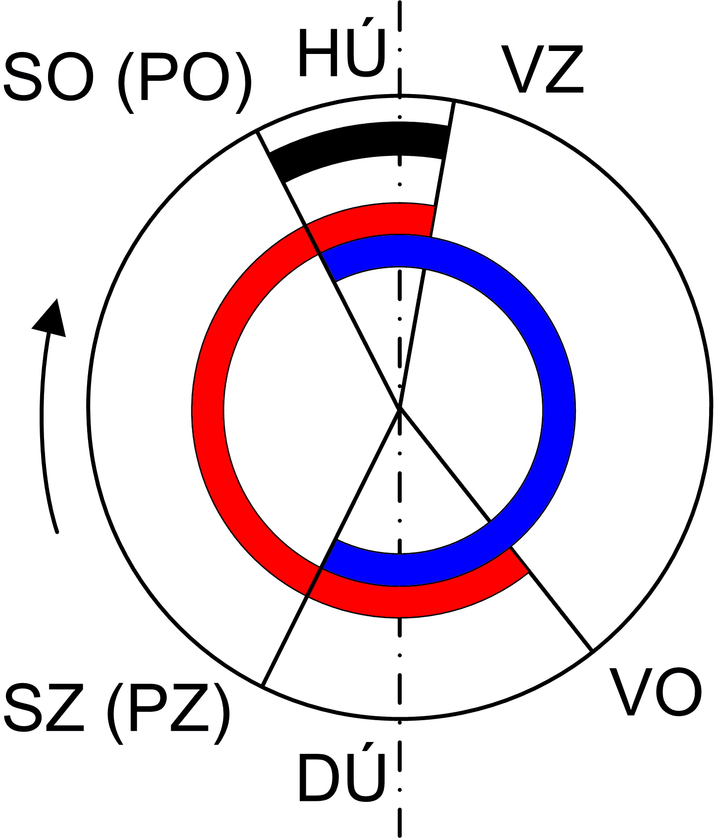 Valve timing diagram of 4-stroke engine.